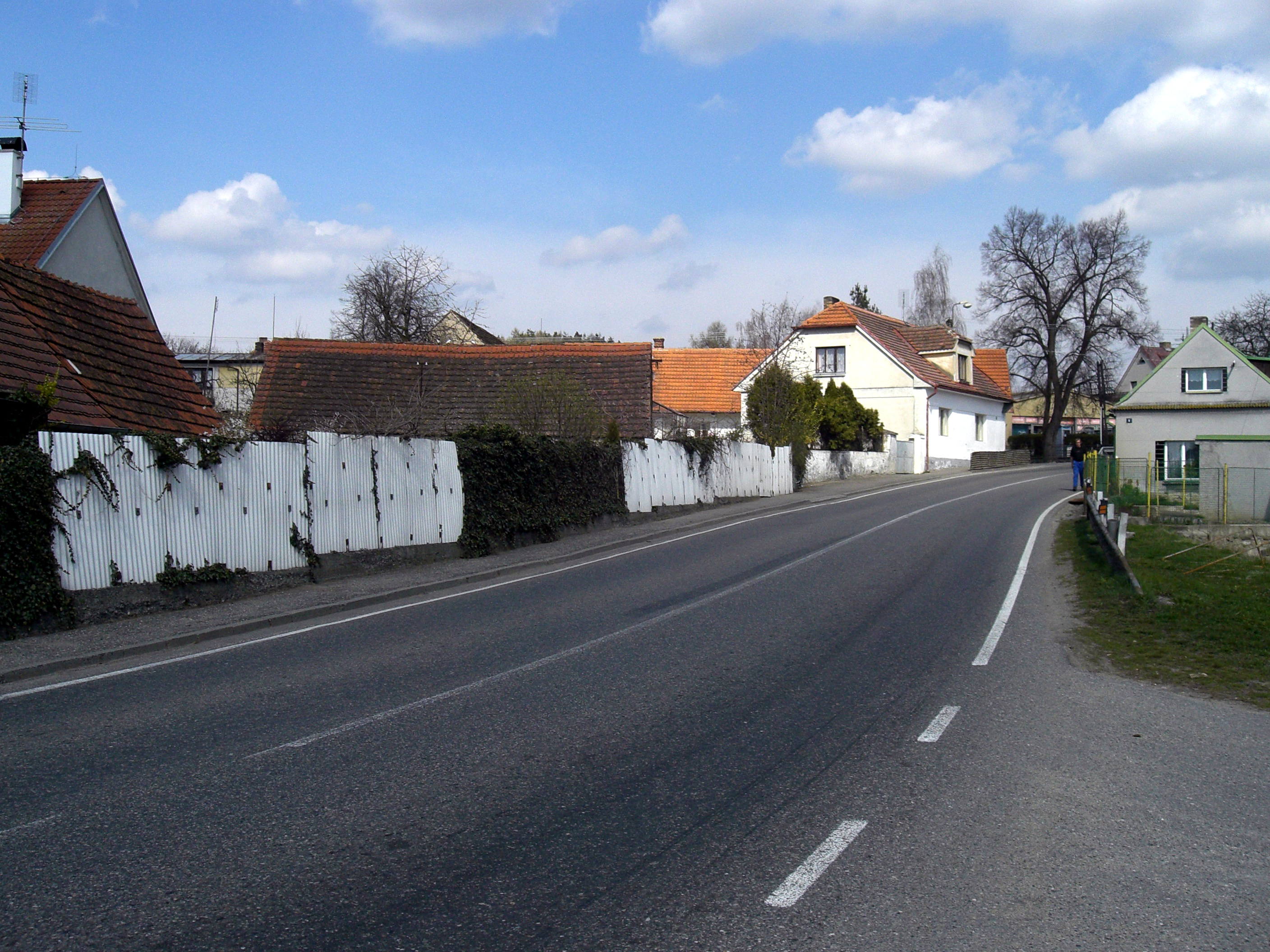 Podolí I village in the Písek district, Czech Republic. Main road in direct Písek-Tábor.